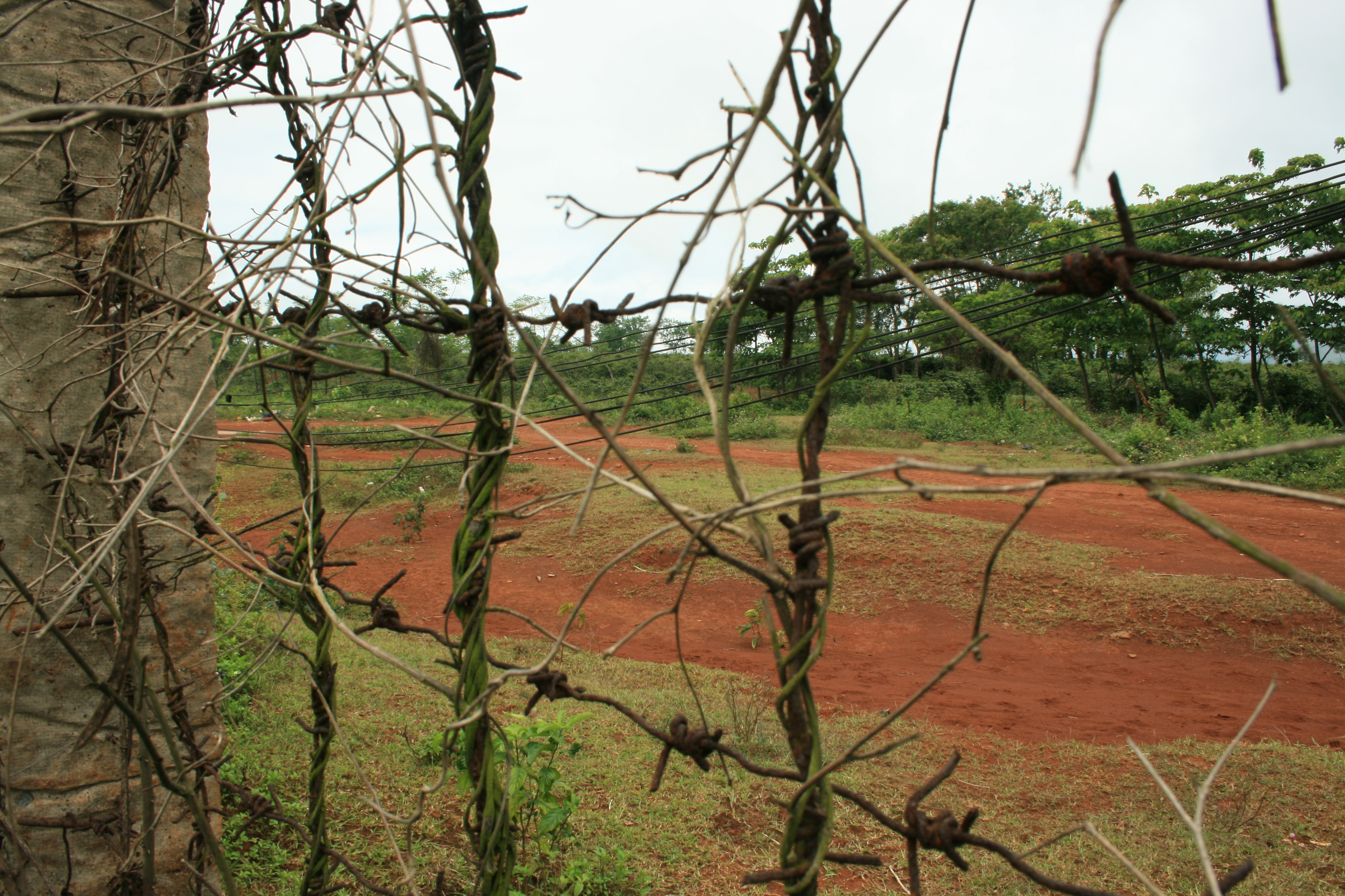 View on the remaining parts of the airstrip at Khe Sanh